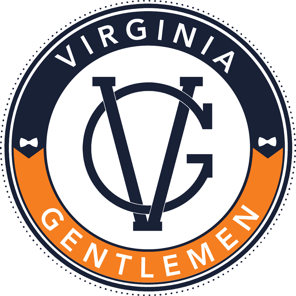 The Virginia Gentlemen's current logo.